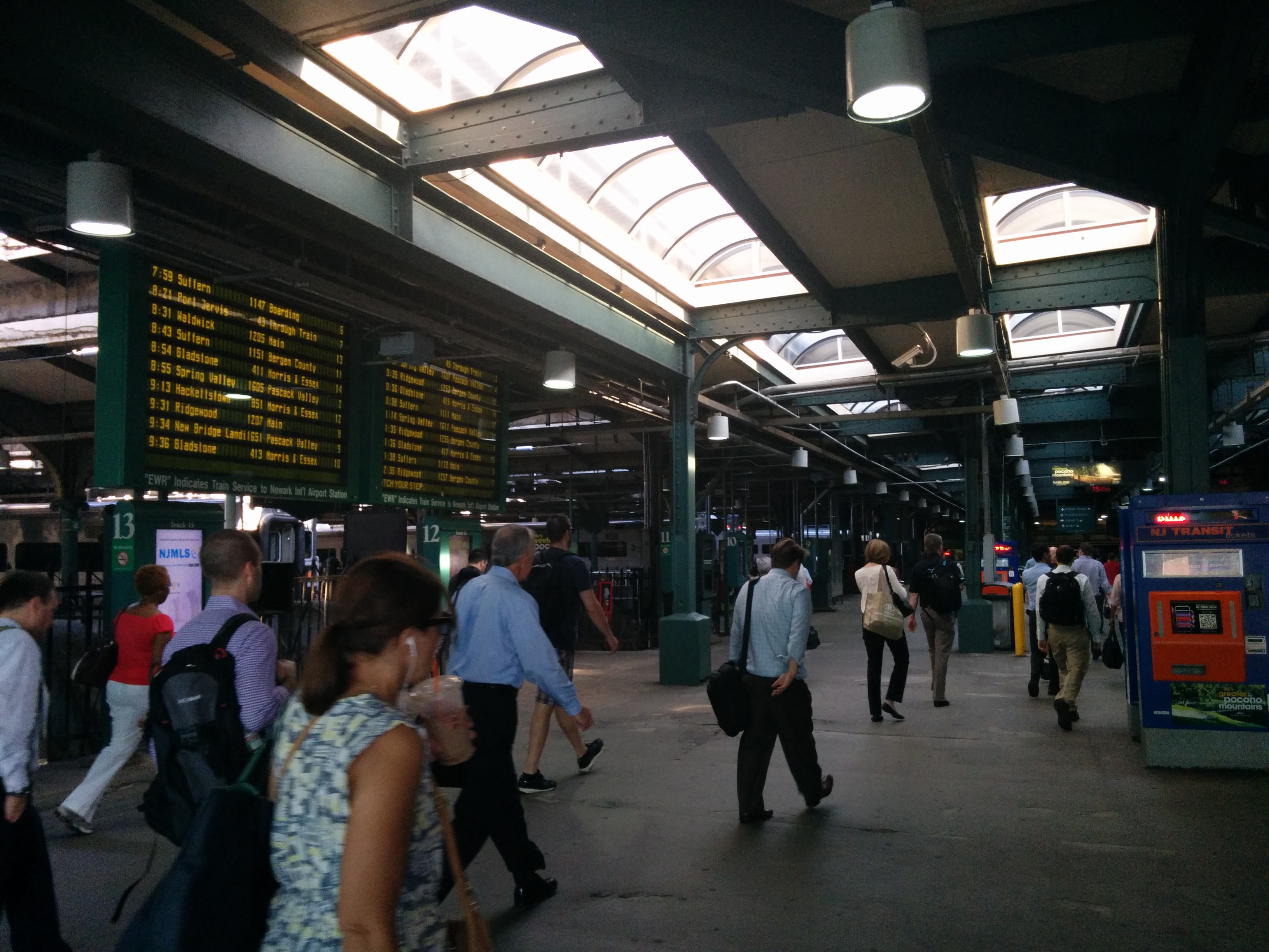 The platform area at Hoboken Terminal in Hoboken, NJ. The entrance to the main waiting room is to the right (out of frame). The tracks are to the left.